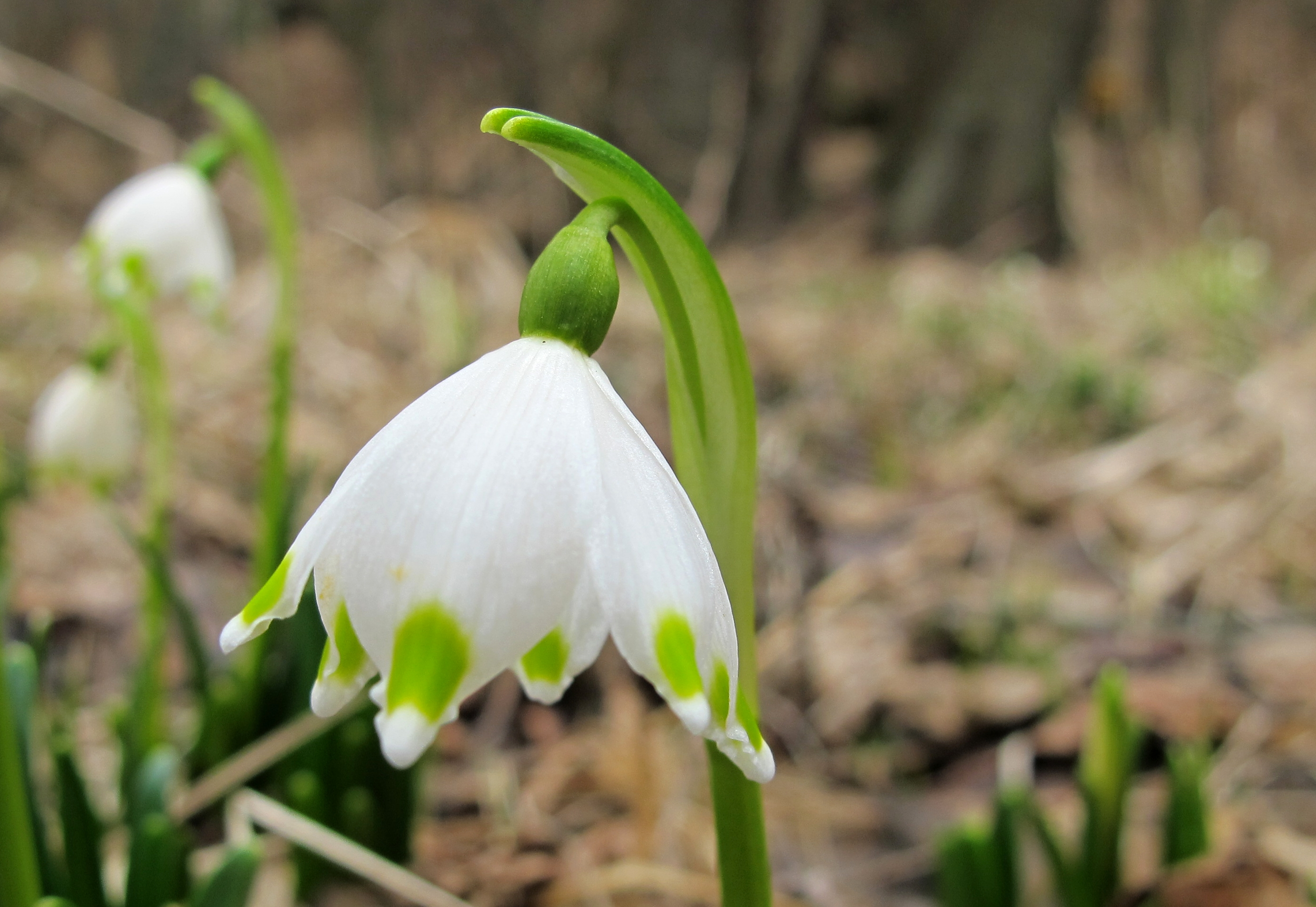 Nature reserve Arba in Srbská Kamenice, Děčín District (Czech Republic)